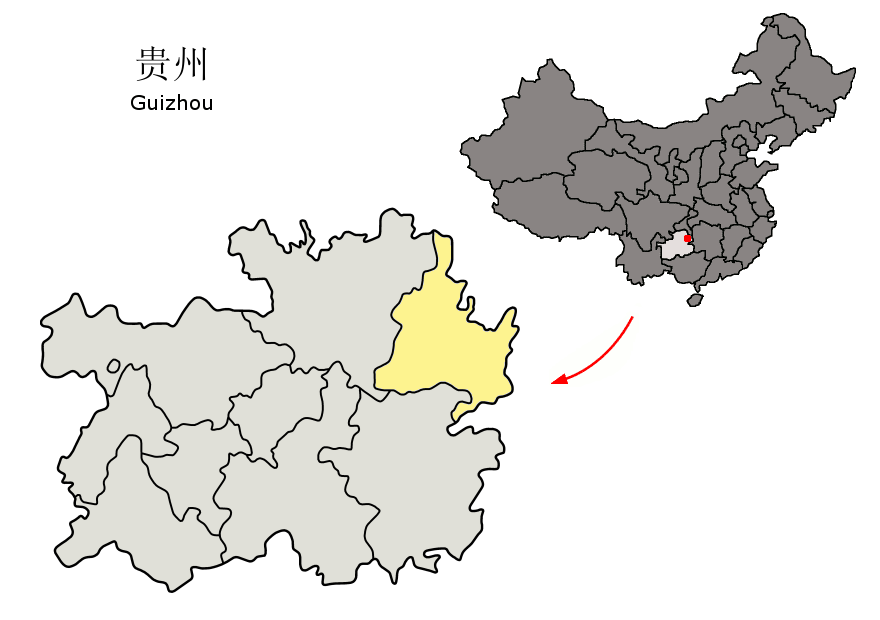 Location of Tongren Prefecture (yellow) within Guizhou province of China Map drawn in november 2007 using various sources, mainly : Guizhou province administrative regions GIS data: 1:1M, County level, 1990 Guizhou Counties map from